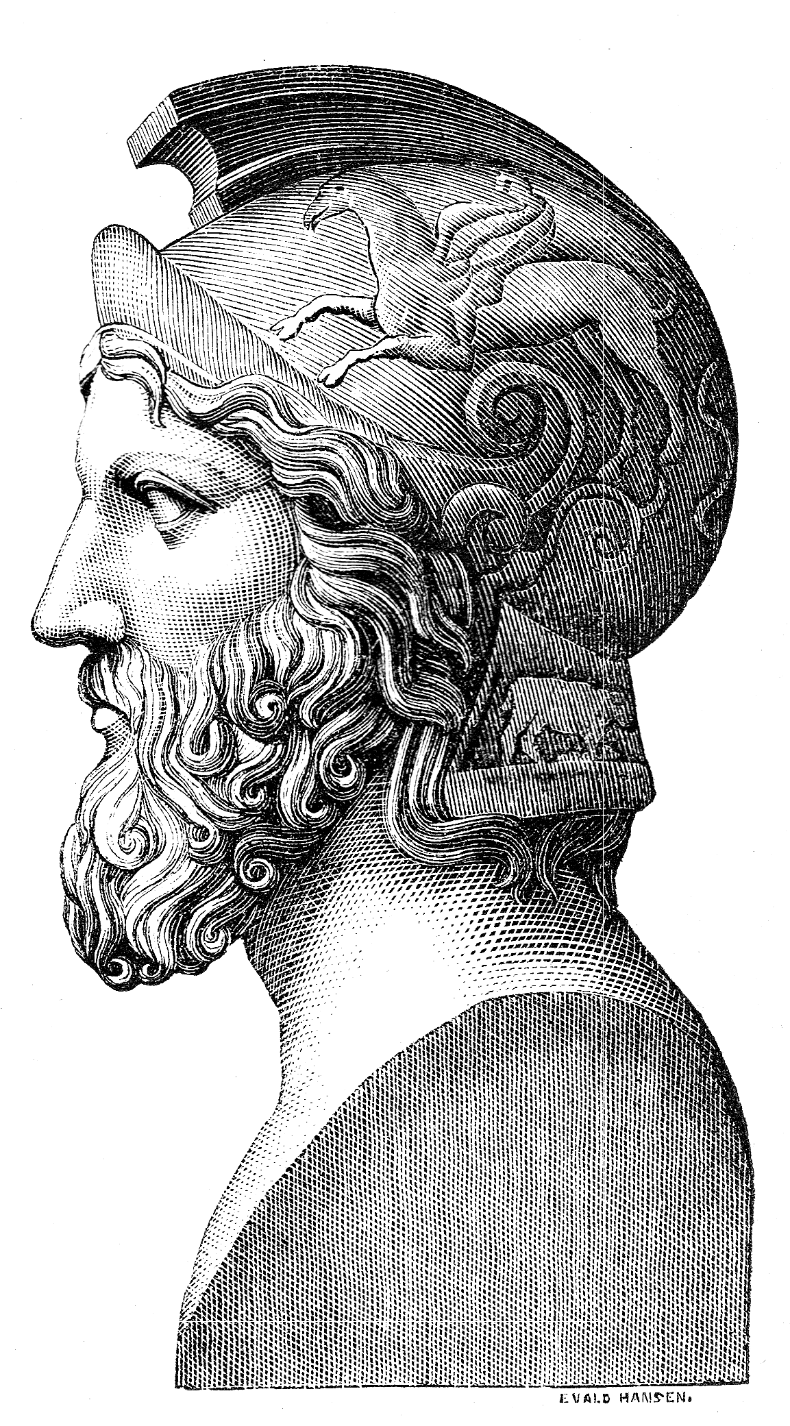 Illustration from "Illustrerad verldshistoria utgifven av E. Wallis. volume I": Militiades.